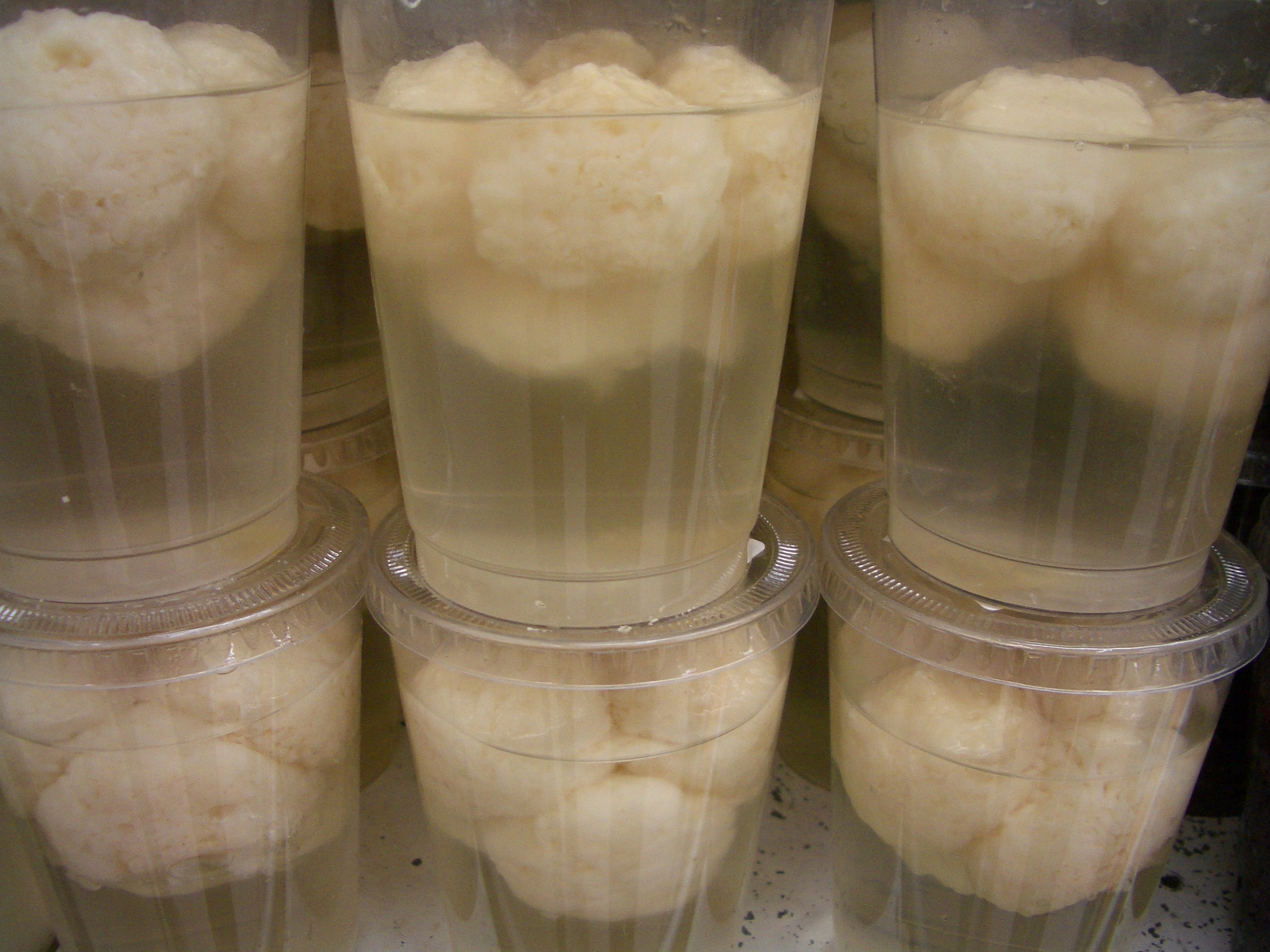 I think this is some sort of sweet dough....but I don't know.